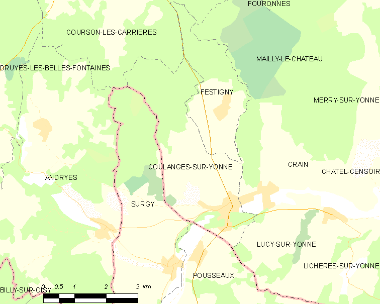 Map of French municipality Coulanges-sur-Yonne